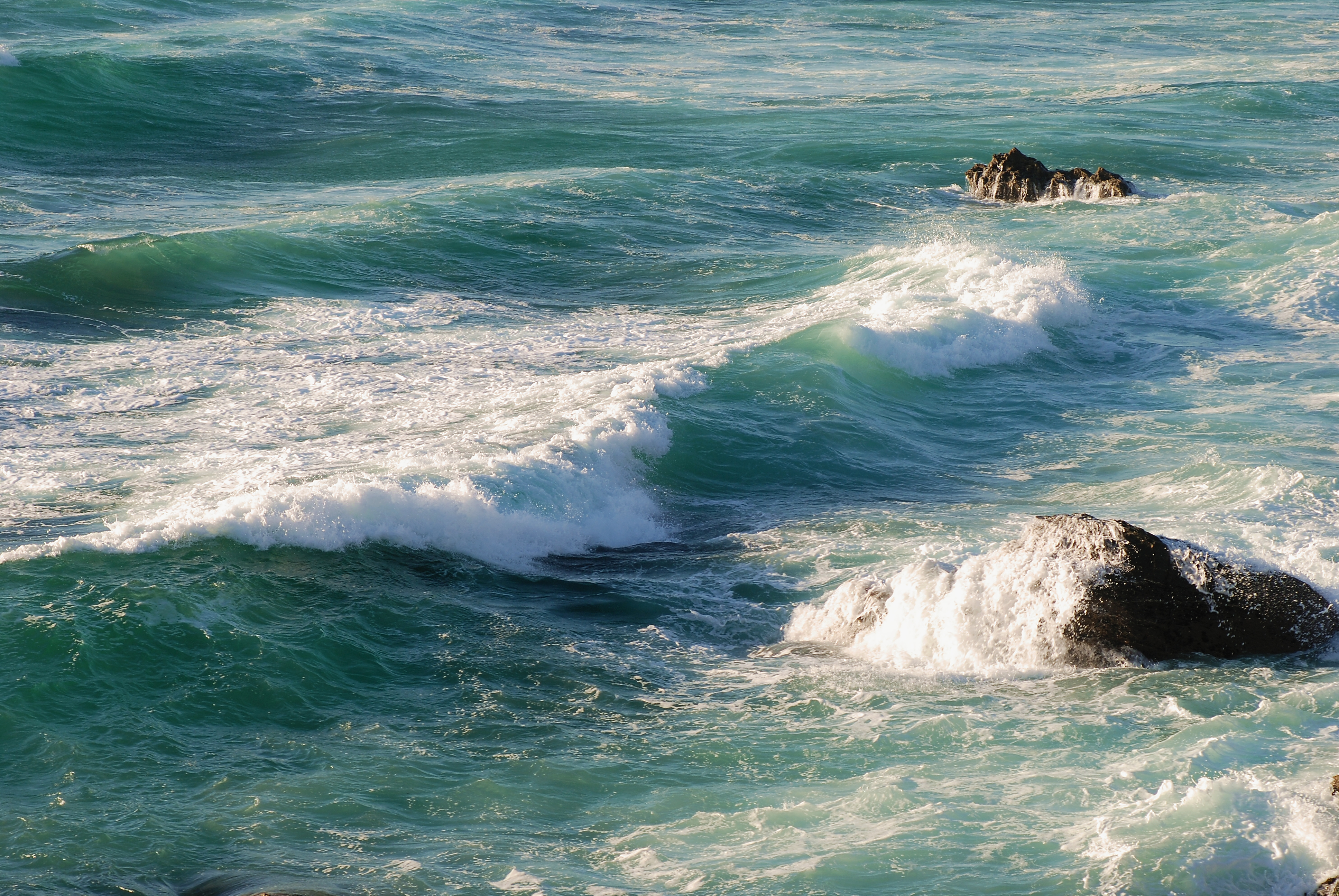 Waves breaking at Porto Covo, west coast of Portugal